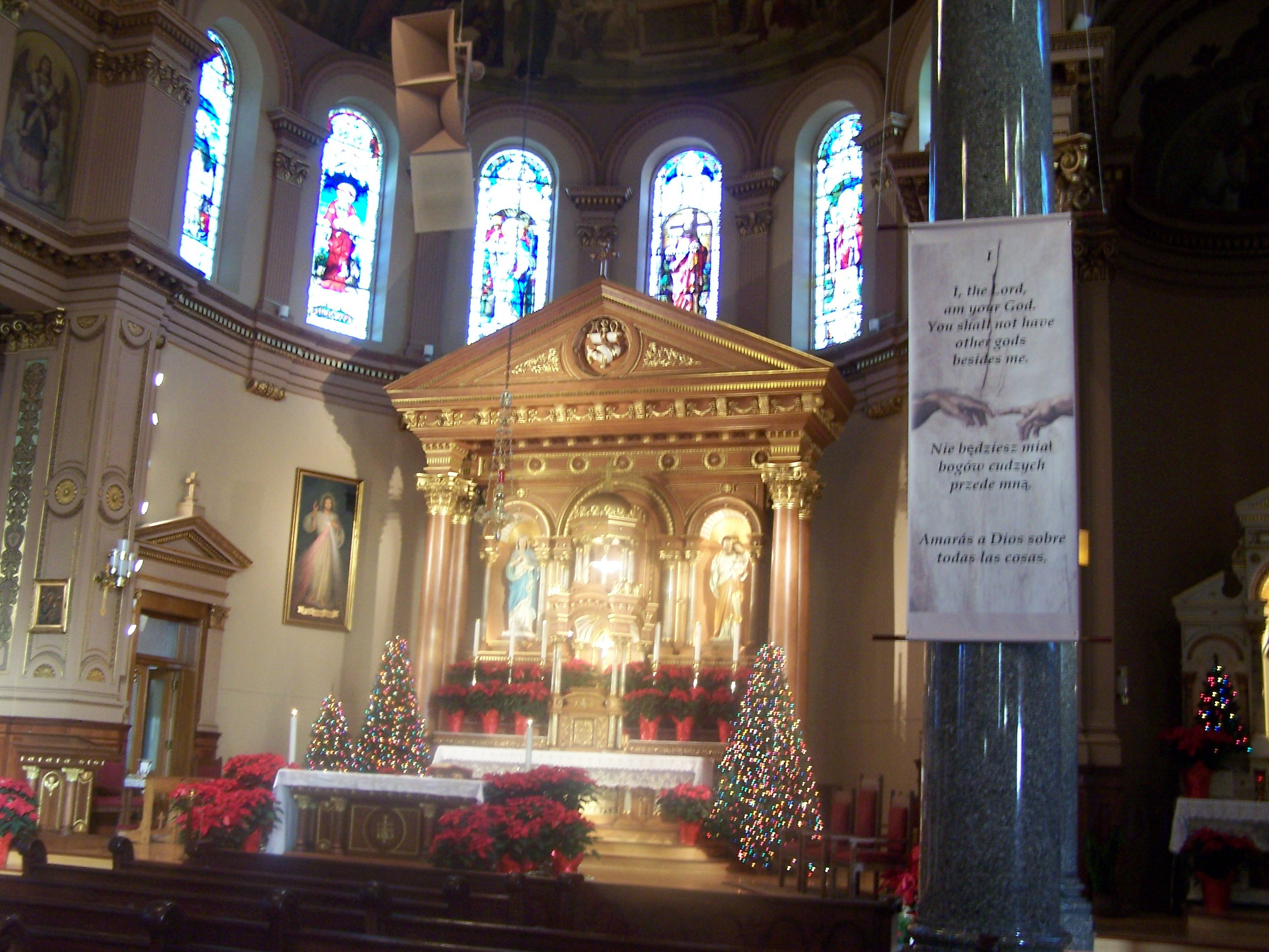 St. Hedwig Chicago Main Altar Decorated for Christmas 2010